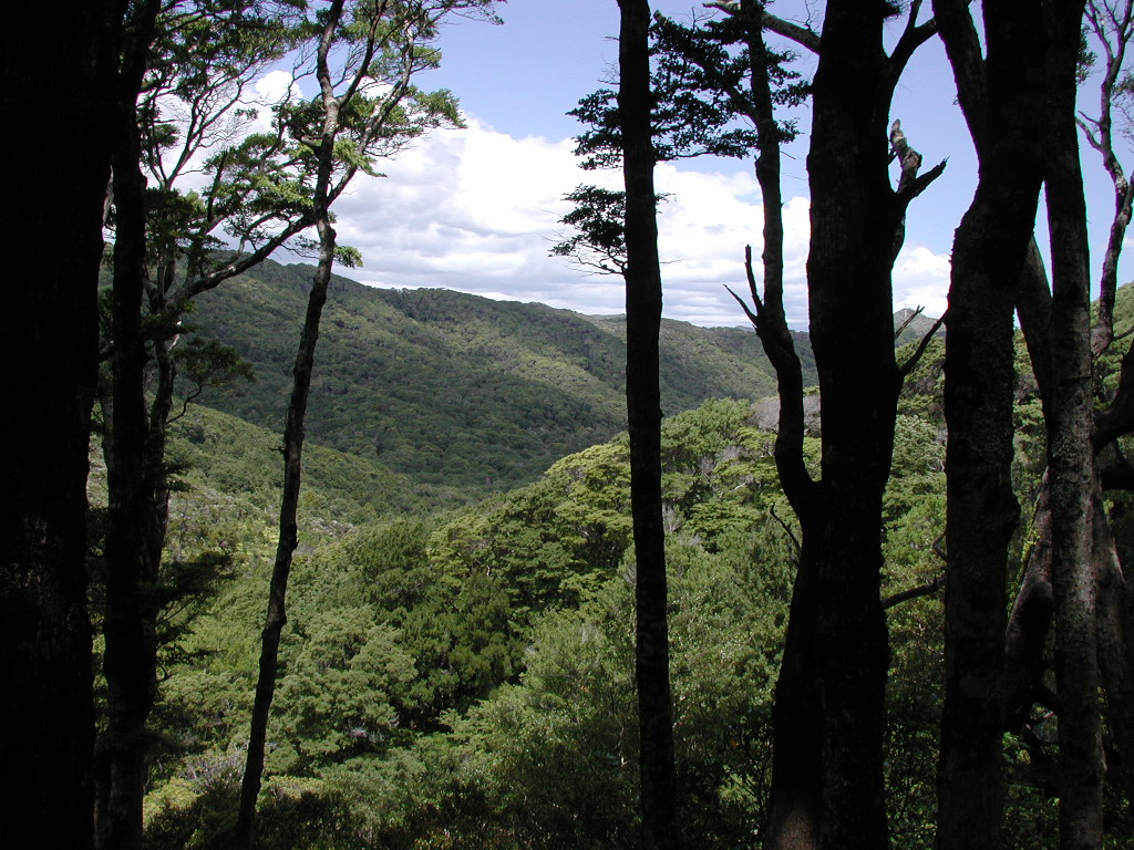 Native bush in Butterfly Creek valley in Orongorongo Range near Eastbourne, Wellington.